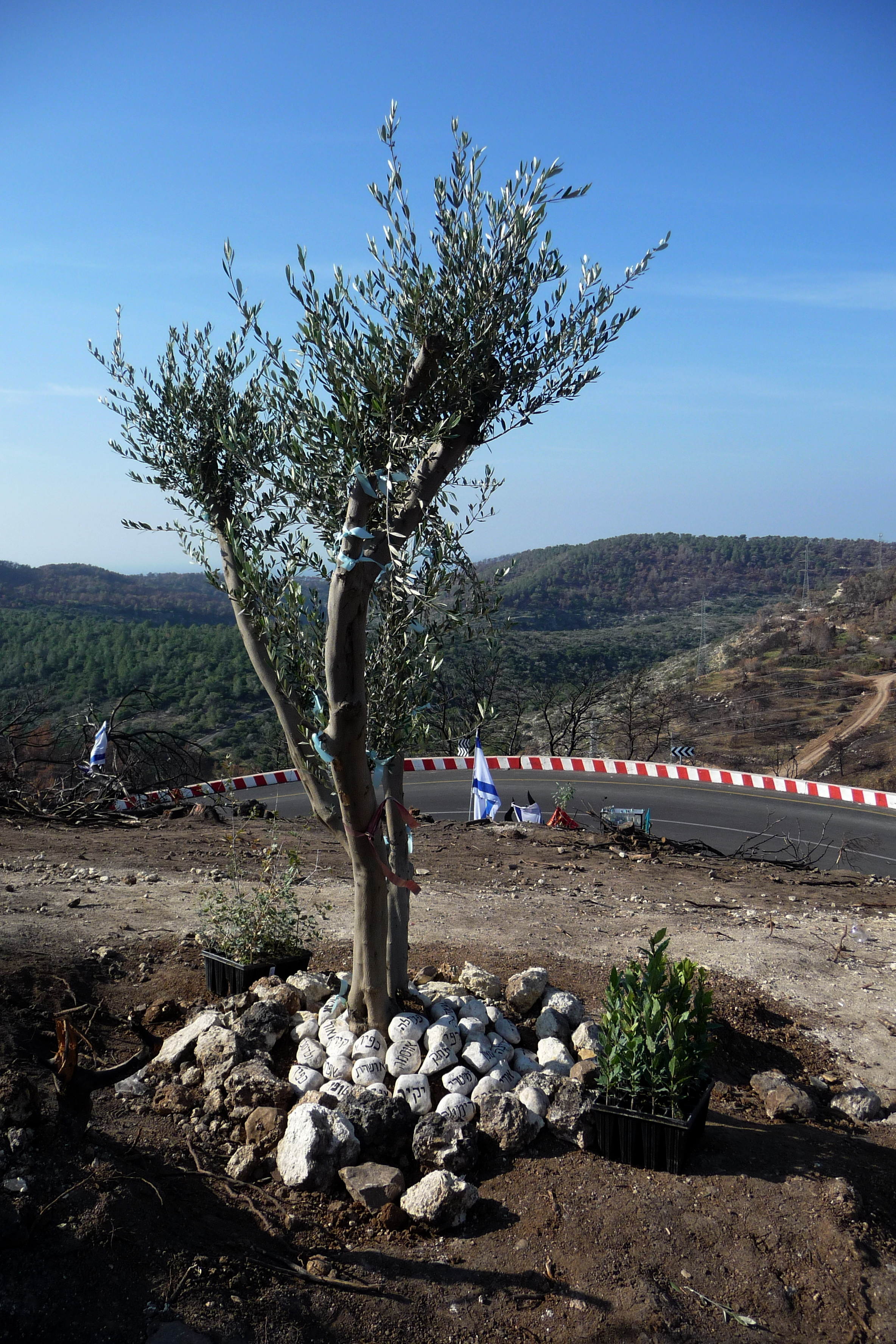 Carmel Park